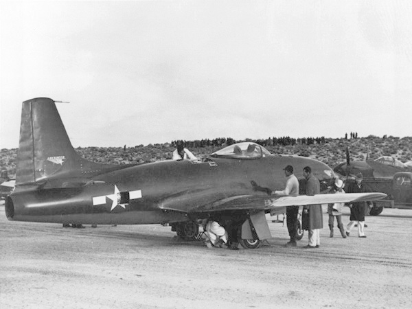 XP-80 prototype Lulu-Belle on the ground.